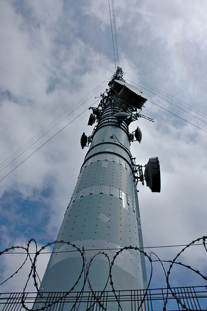 Winter Hill Telecommunications Mast, in the Borough of Chorley, Lancashire, England.